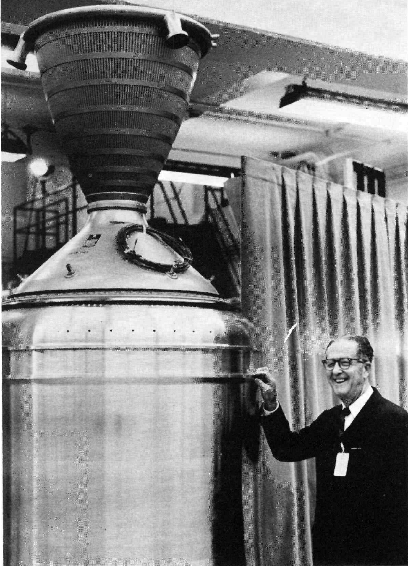 U .S. Senator Clinton P. Anderson of New Mexico, Chairman of the Senate Aeronautical and Space Sciences Committee, and a member of the Joint (Congressional) Committee on Atomic Energy, examines a Kiwi rocket engine during a visit to the Los Alamos Scientific Laboratory